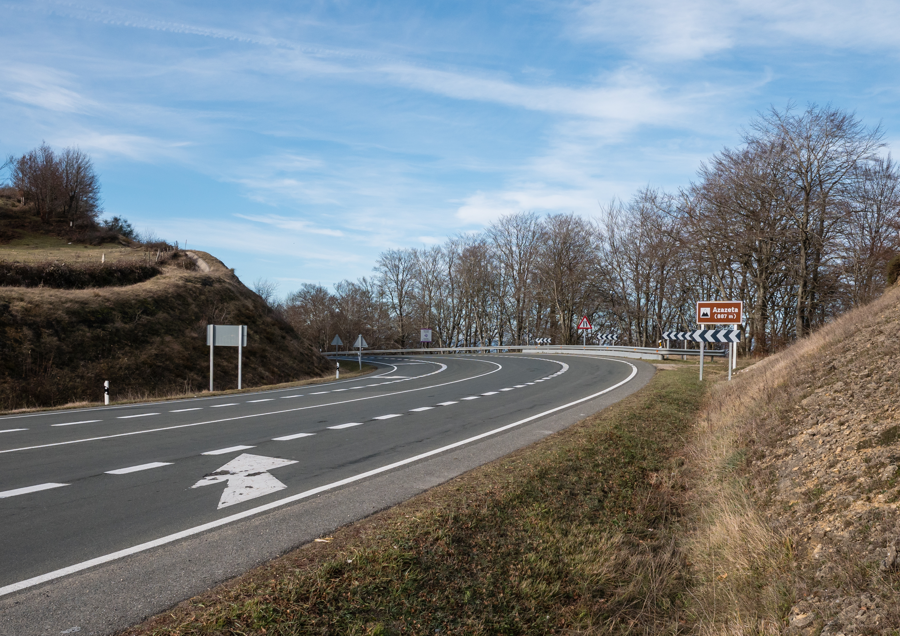 Azaceta mountain pass. Álava, Basque Country, Spain